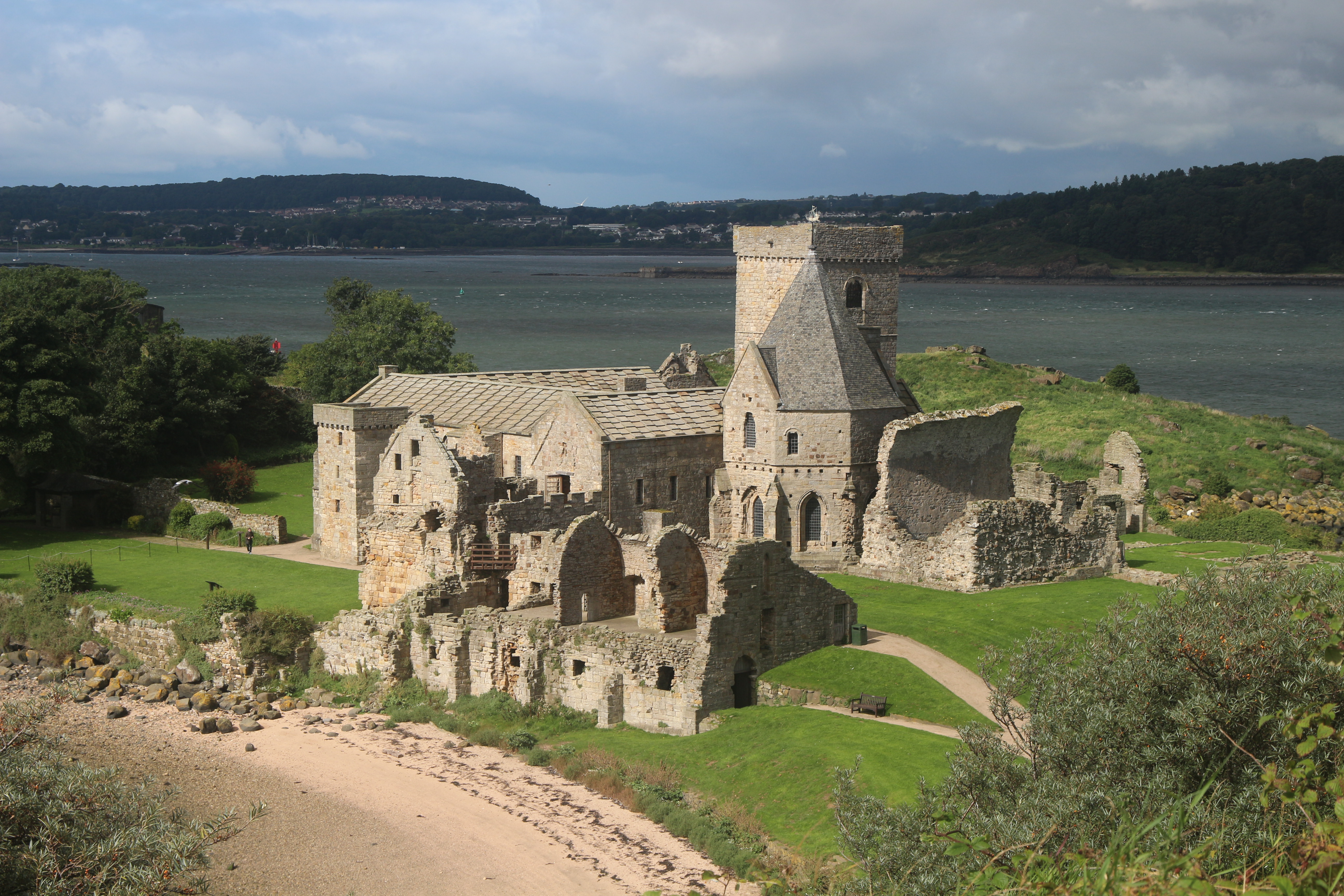 Inchcolm Abbey Wikidata has entry Q2610252 with data related to this item.